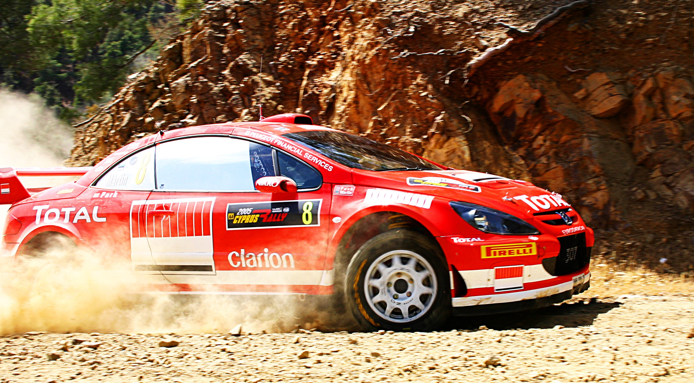 Markko Märtin driving his Peugeot 307 WRC at the 2005 Cyprus Rally.